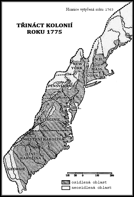 The thirteen colonies in 1775